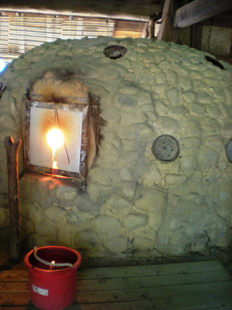 Glass House at Historic Jamestowne.